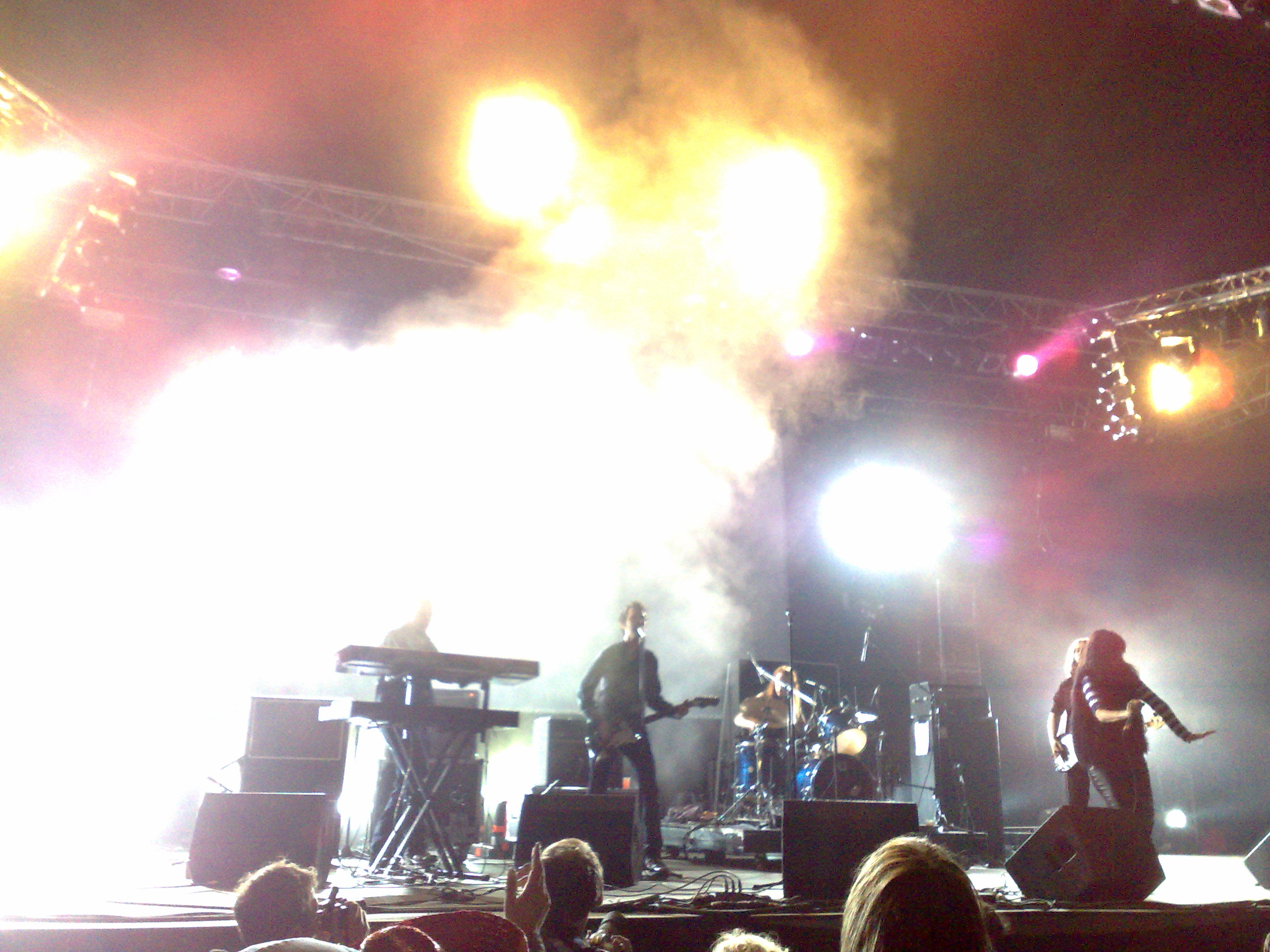 The band Boss Hog performing live